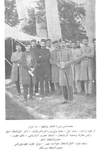 اقبال آذر